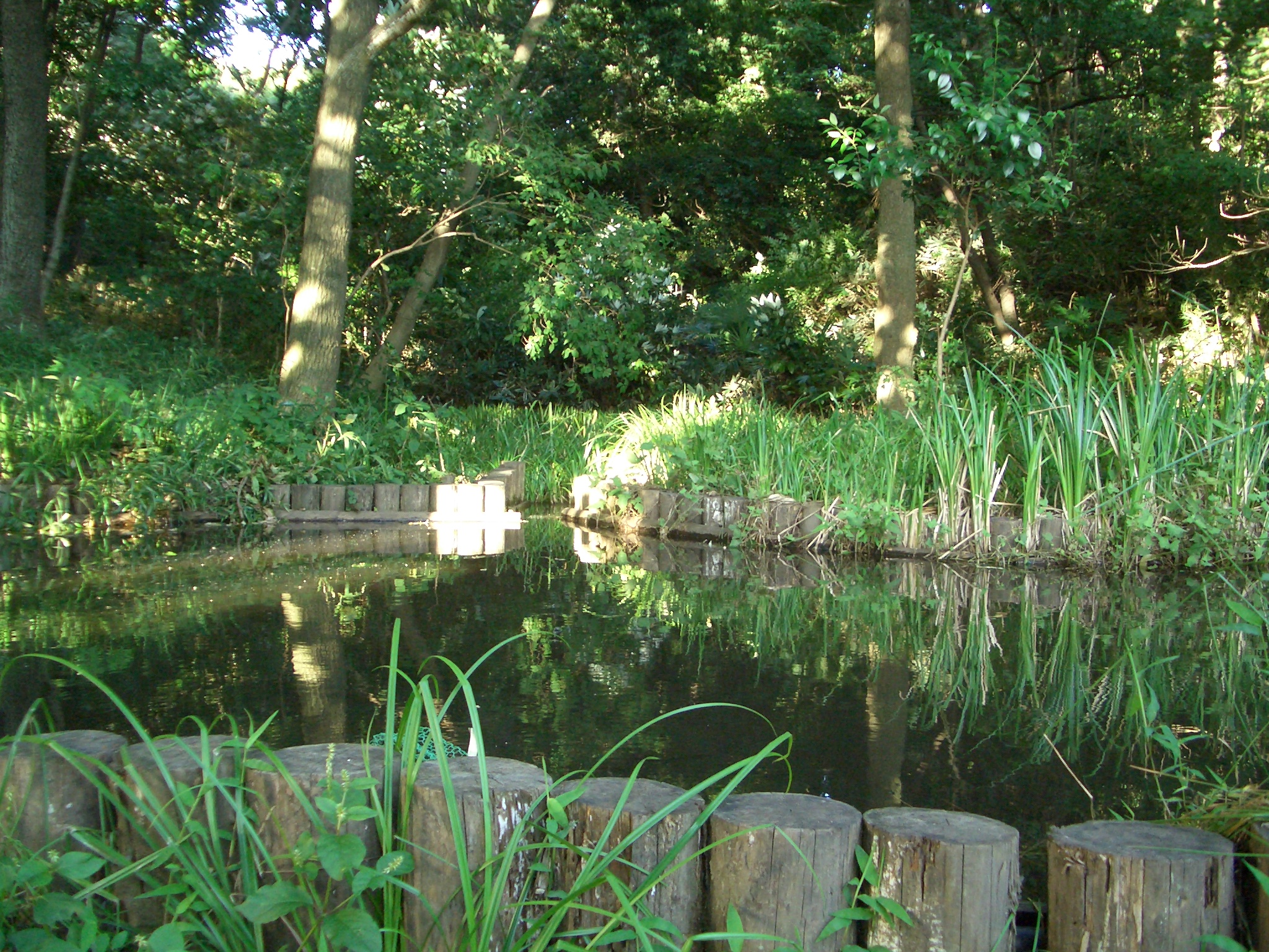 Mitsu-ike Pond (みつ池) in Shimme Forest and Mitsu-ike Pond Nature Preserve (神明の森みつ池特別保護区)